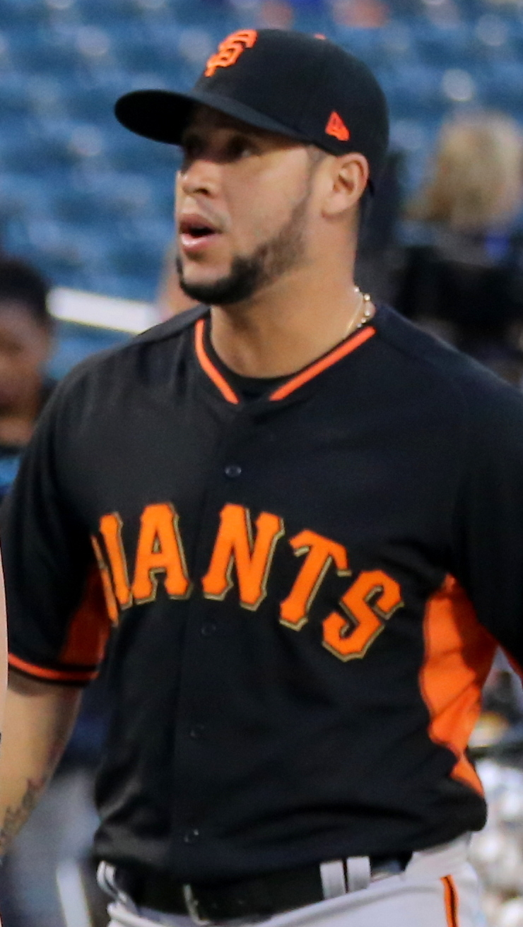 Gorkys Hernández, Ángel Pagán, Gregor Blanco and Ehíré Adríanza of the San Francisco Giants before the 2016 NL Wild Card Game.